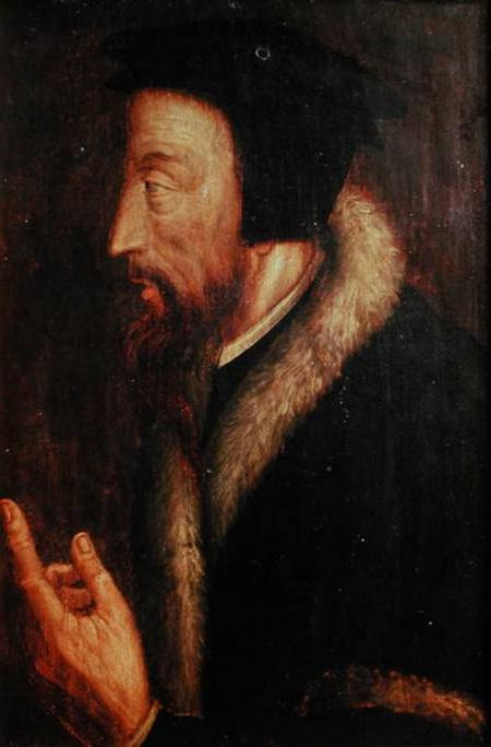 Anonymous 16th century portrait of Calvin. (Front cover Cottret, Bernard (2000), Calvin: A Biography, Grand Rapids, Michigan: Wm. B. Eerdmans)